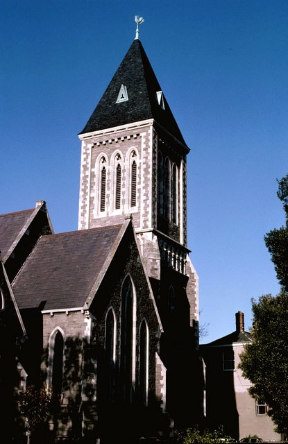 Zion Church Rathgar This is Zion Church, Rathgar, Dublin, at the corner of Bushy Park Road and Zion Road. This Church of Ireland, Anglican church was opened in 1861.